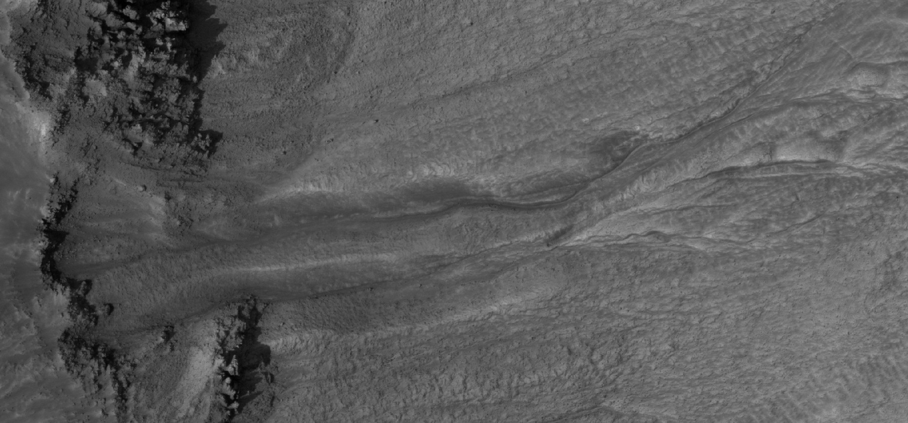 Close-up of a gully, as seen by hirise, under HiWish program. Location is 39.4 N and 356.6 E.